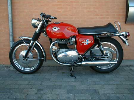 1967 BSA Spitfire I Royston Lloyd own this picture taken on my digital camera.